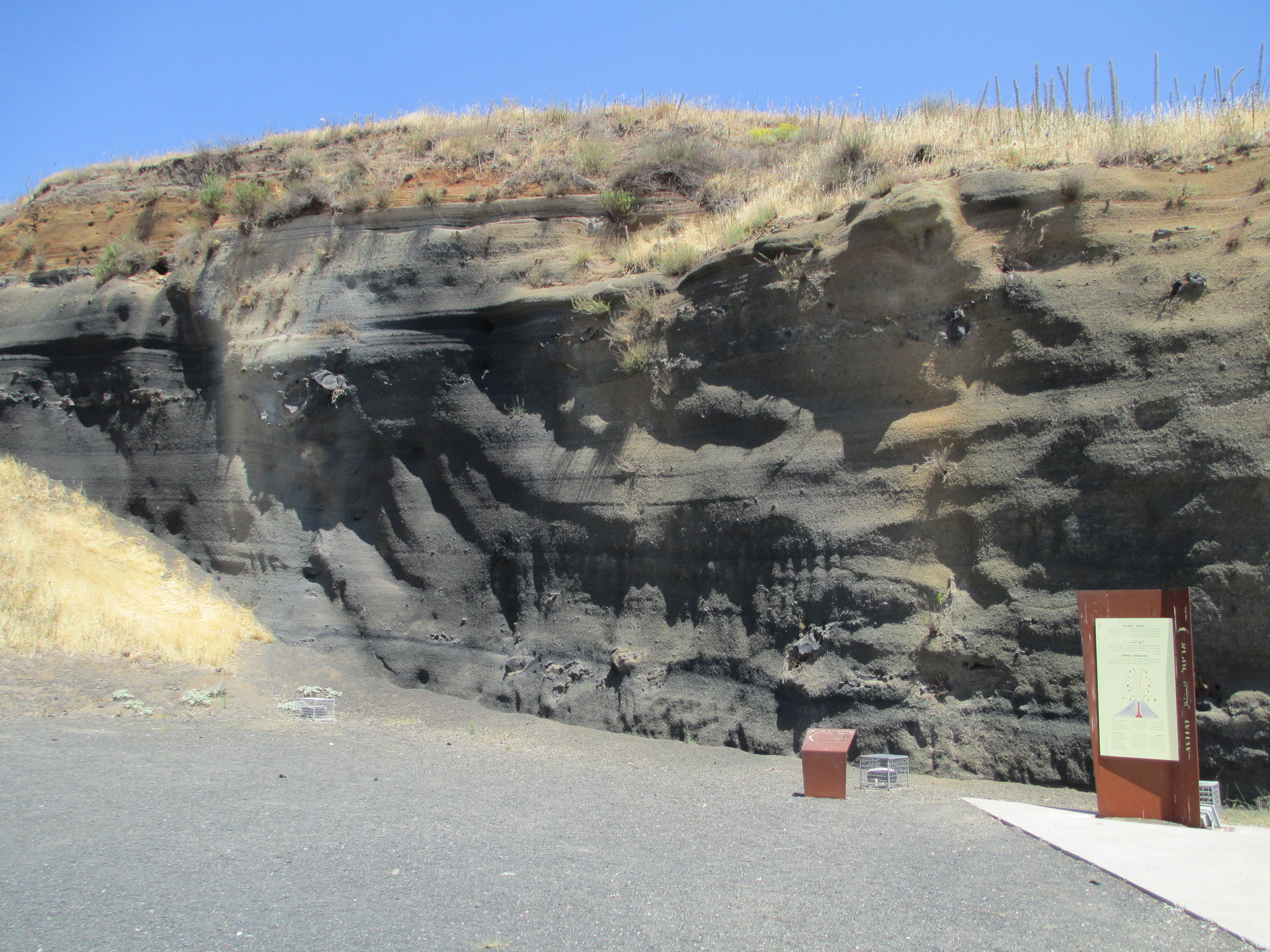 Mount Avital Volcanic Park